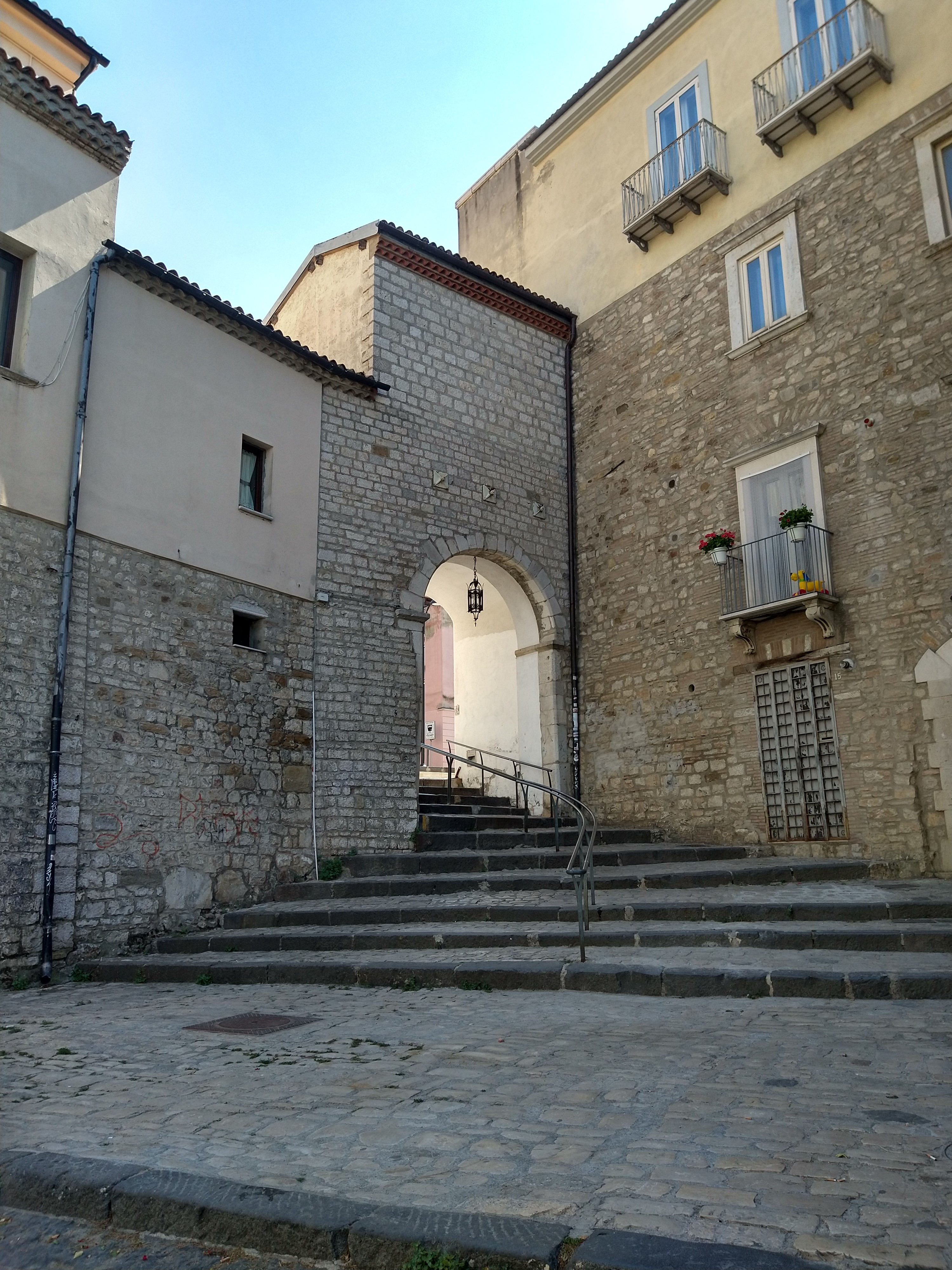 Porta San Giovanni, one of the medieval gates of the walls of Potenza, Italy.